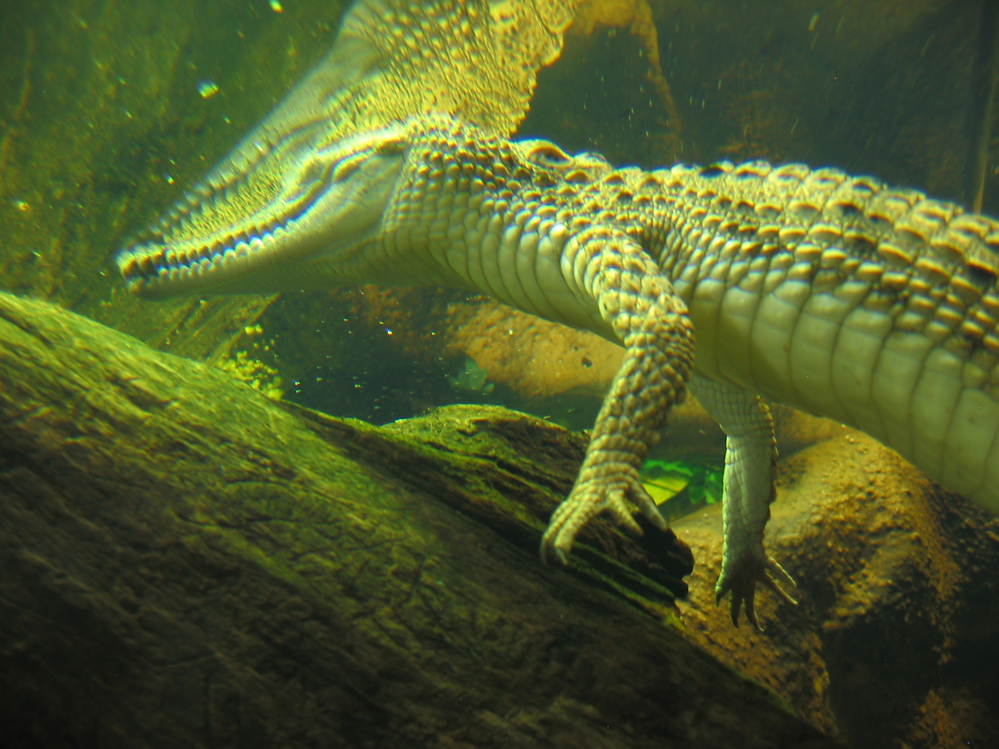 Young Freshwater crocodile, view is from underwater looking up.